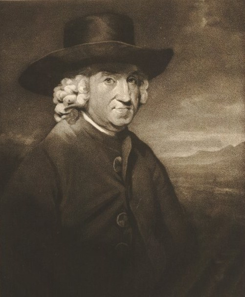 Portrait of William Tytler(1711–1792), Scottish lawyer, known as a historical writer.